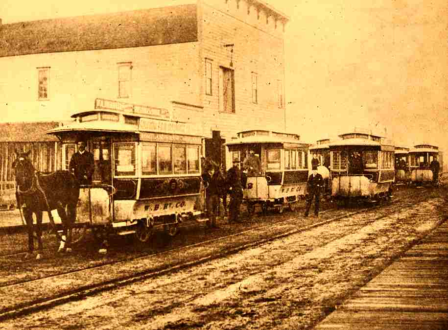 Horse trams of the Willamette Bridge Railway, in Portland, Oregon, in front of their carbarn on N Street (now S.E. Morrison Street) at Grand Avenue.